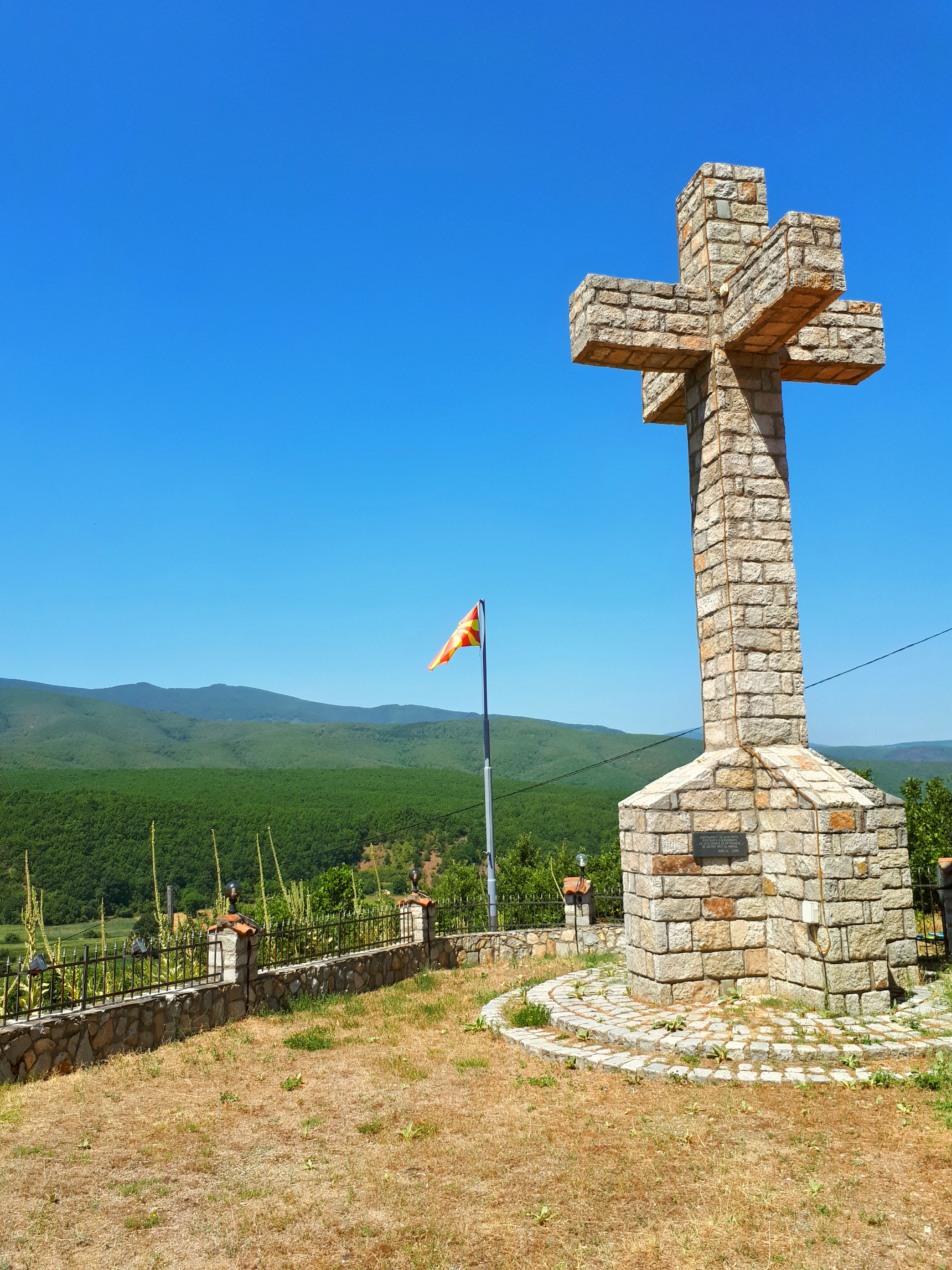 Part of the Veloexpedition in 2017